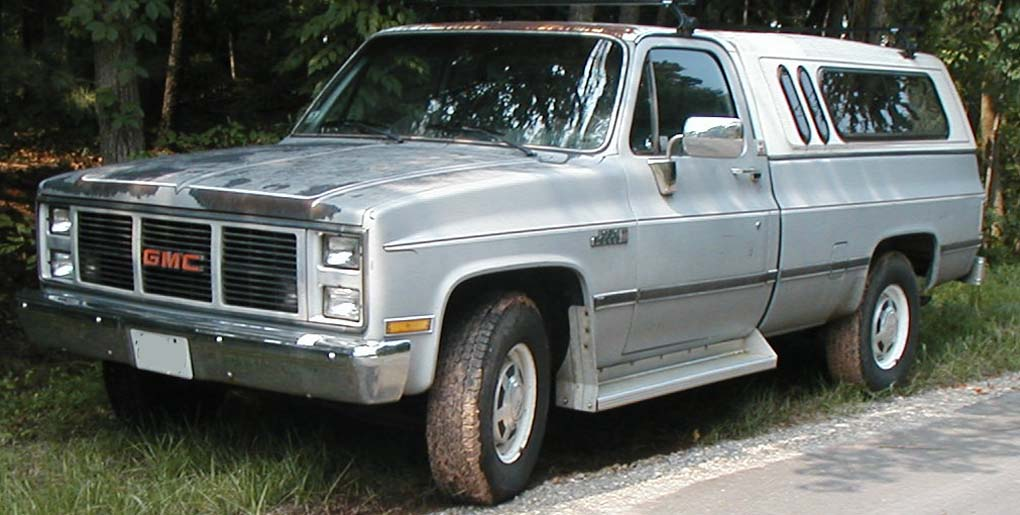 1981-1987 GMC Sierra C/K photographed in USA.